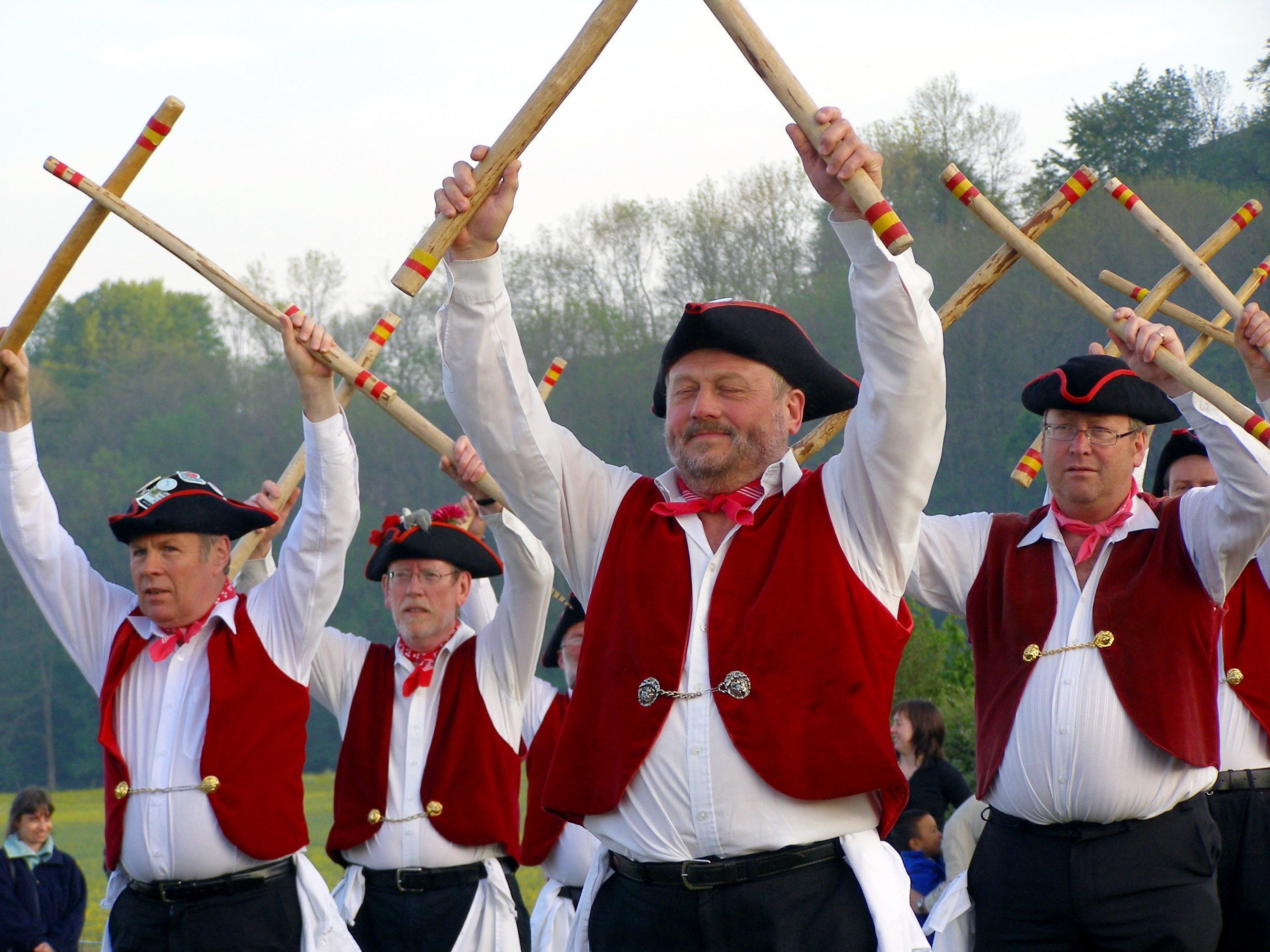 Morris dancers with sticksMorris men